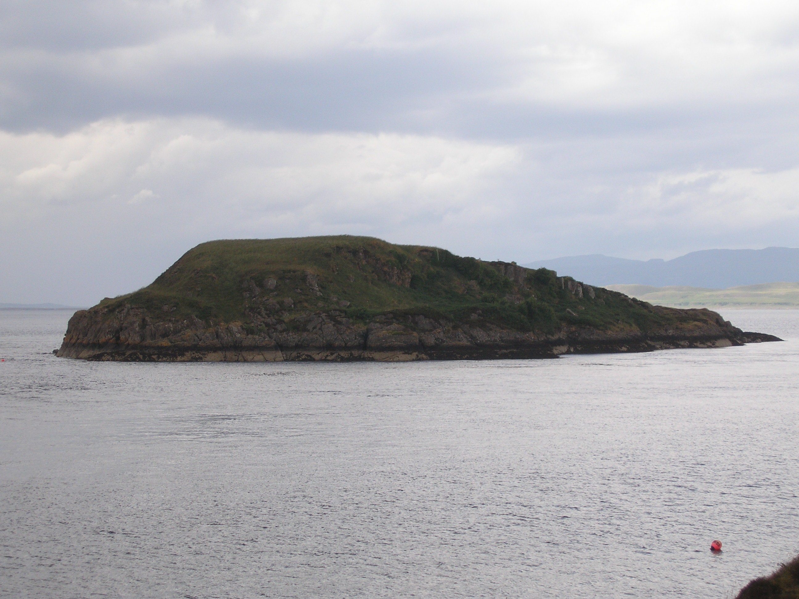 Maiden Island near Oban on the west coast of Scotland.